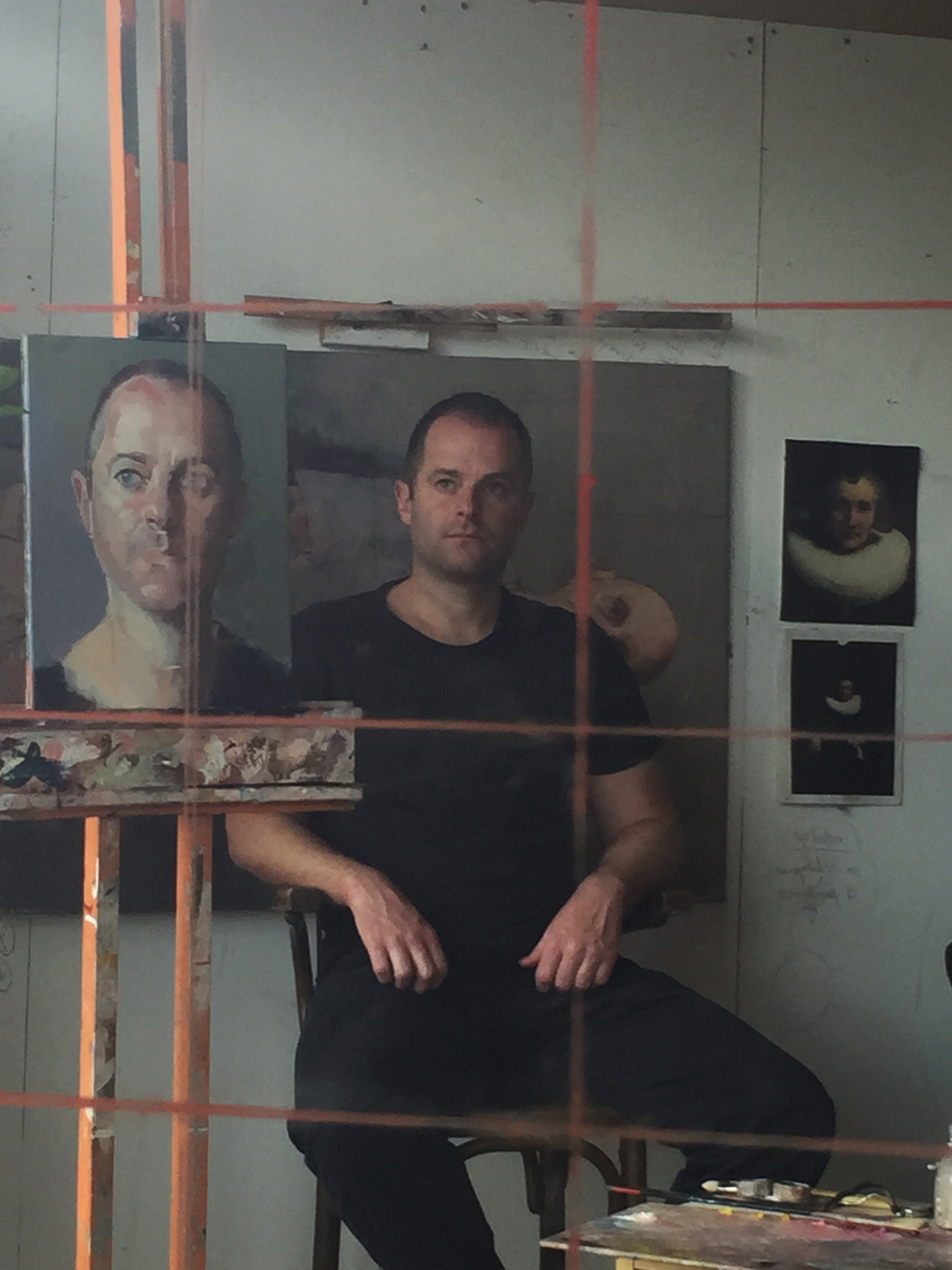 Jesse Waugh self portrait